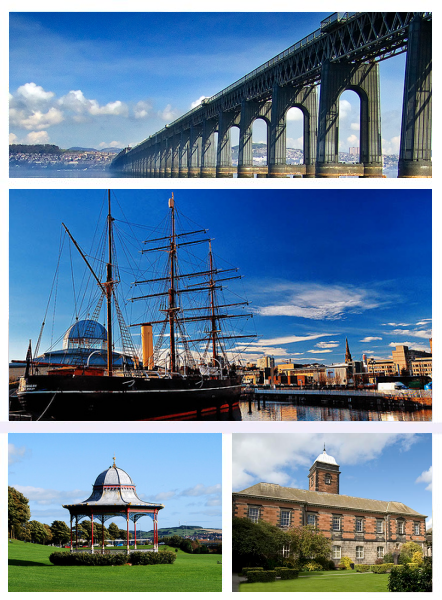 This is a montage of various photos of mine made purposely for the Dundee wikipedia article.